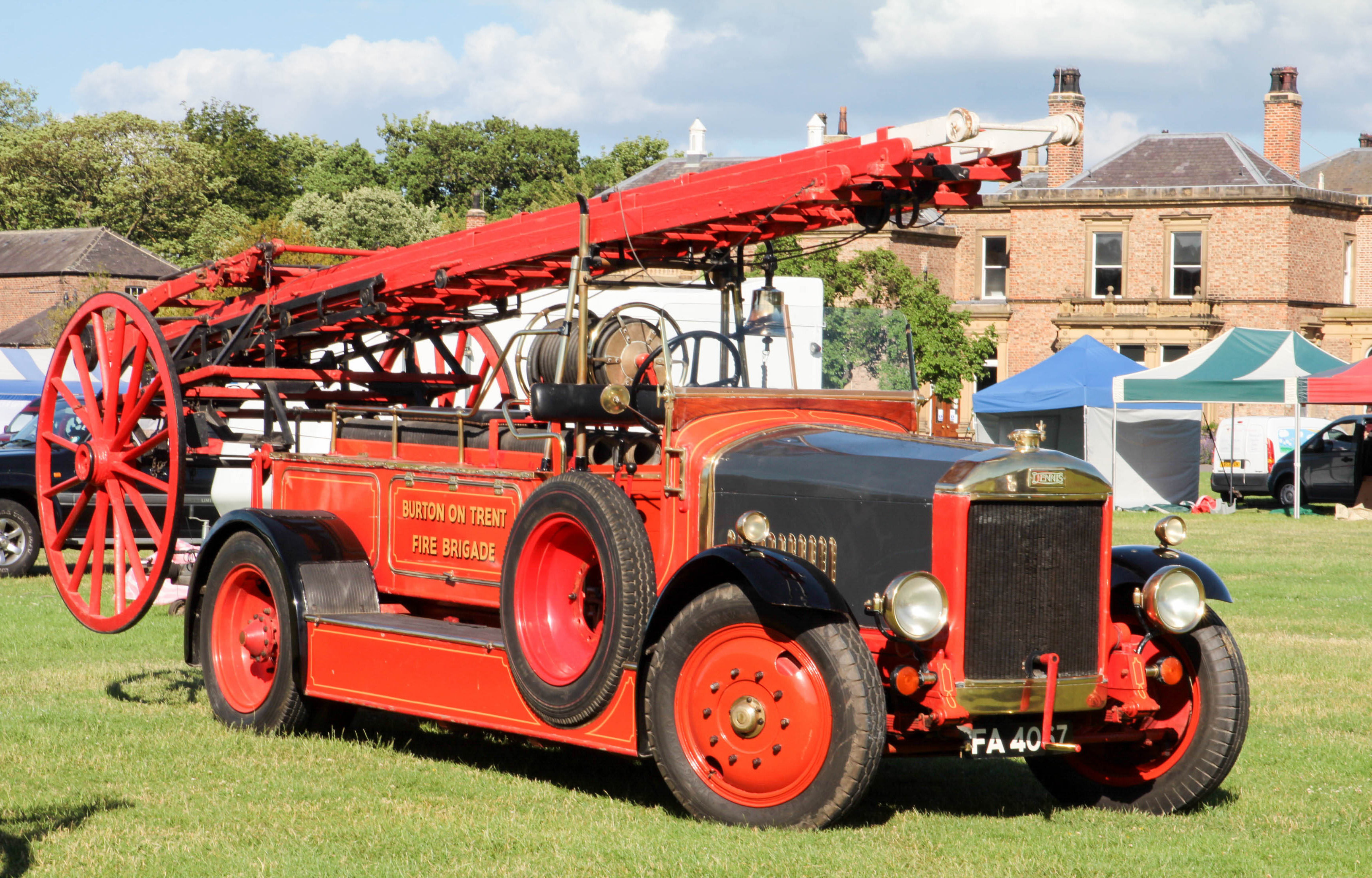 FA4067 is a 1930 Low Load Dennis fitted with the 60/70HP White and Poppe 'T' head 4 cylinder side valve engine. This engine originally appeared in Dennis 'N' Types as far back as 1911. In 1930 this is one of the last applications. An electric start makes the engine feel positively modern. A further advancement is the integration of the power take off with the gearbox and the replacement of the box joints with flexible spider type universal joints. Finally, there are brakes on all four wheels and although they are rod operated there is a vacuum servo present to give power assistance. The fire fighting water pump is a Dennis Number 3 using 6 inch suction. FA4067 started life with the Burton on Trent Fire Brigade, before transferring to the Bass Brewery Fire Brigade